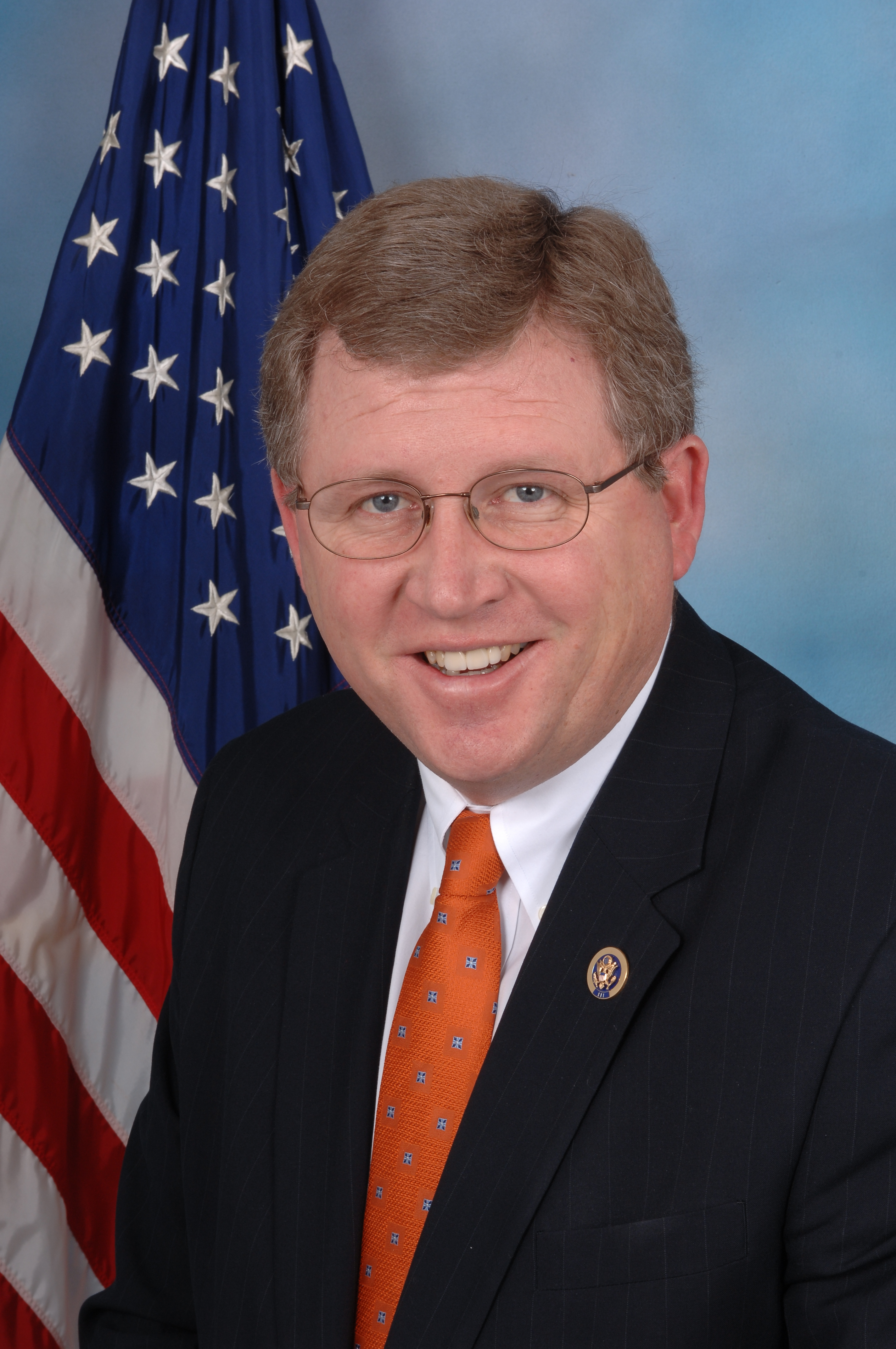 Frank Lucas (Oklahoma), member of the United States House of Representatives.